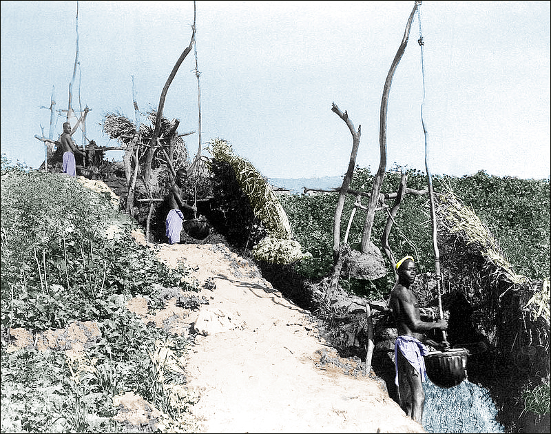 Water elevation using 3 Shadoufs.